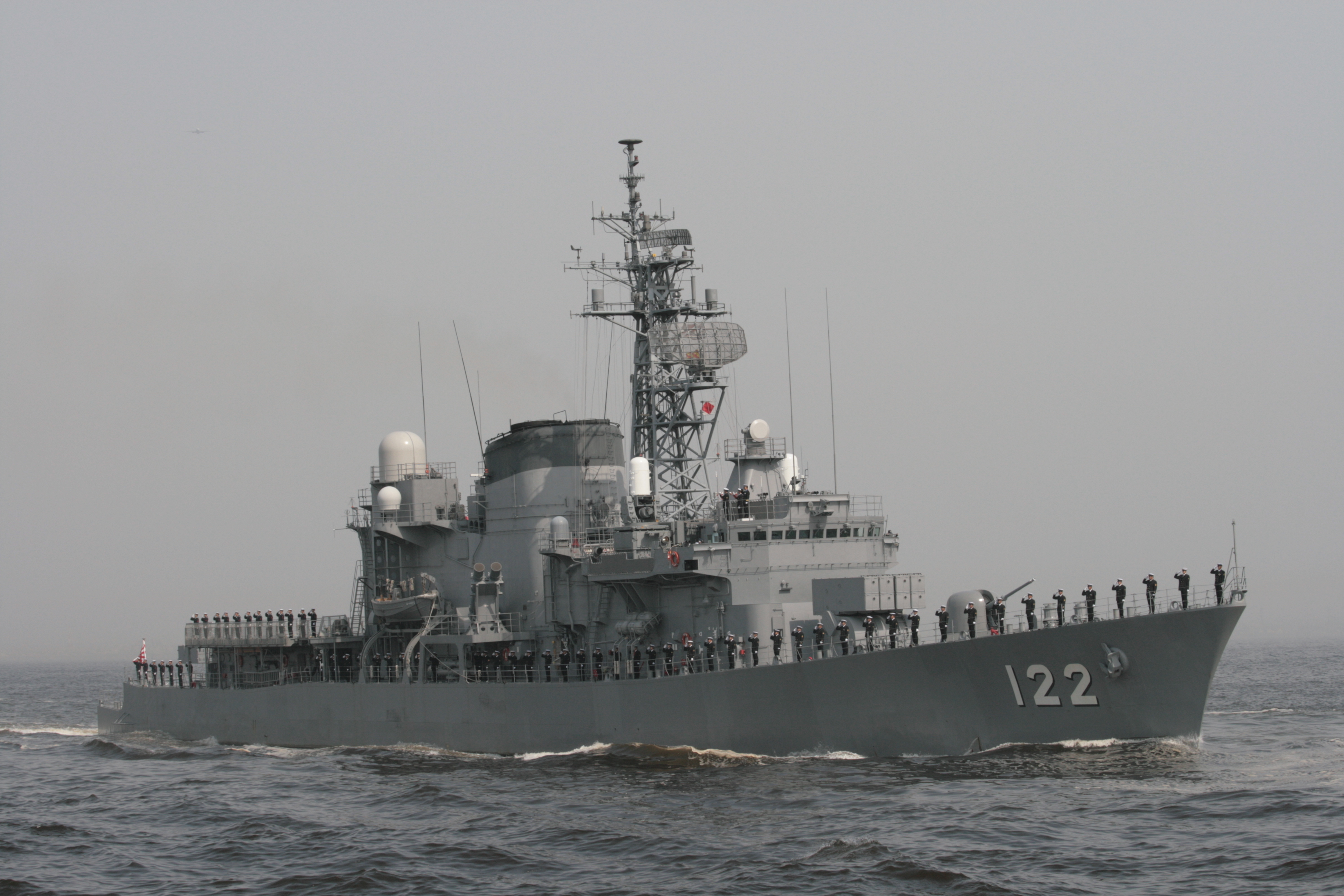 DD122 Hatsuyuki name ship of the Hatsuyuki class destroyers of the Japan Maritime Self-Defense Force